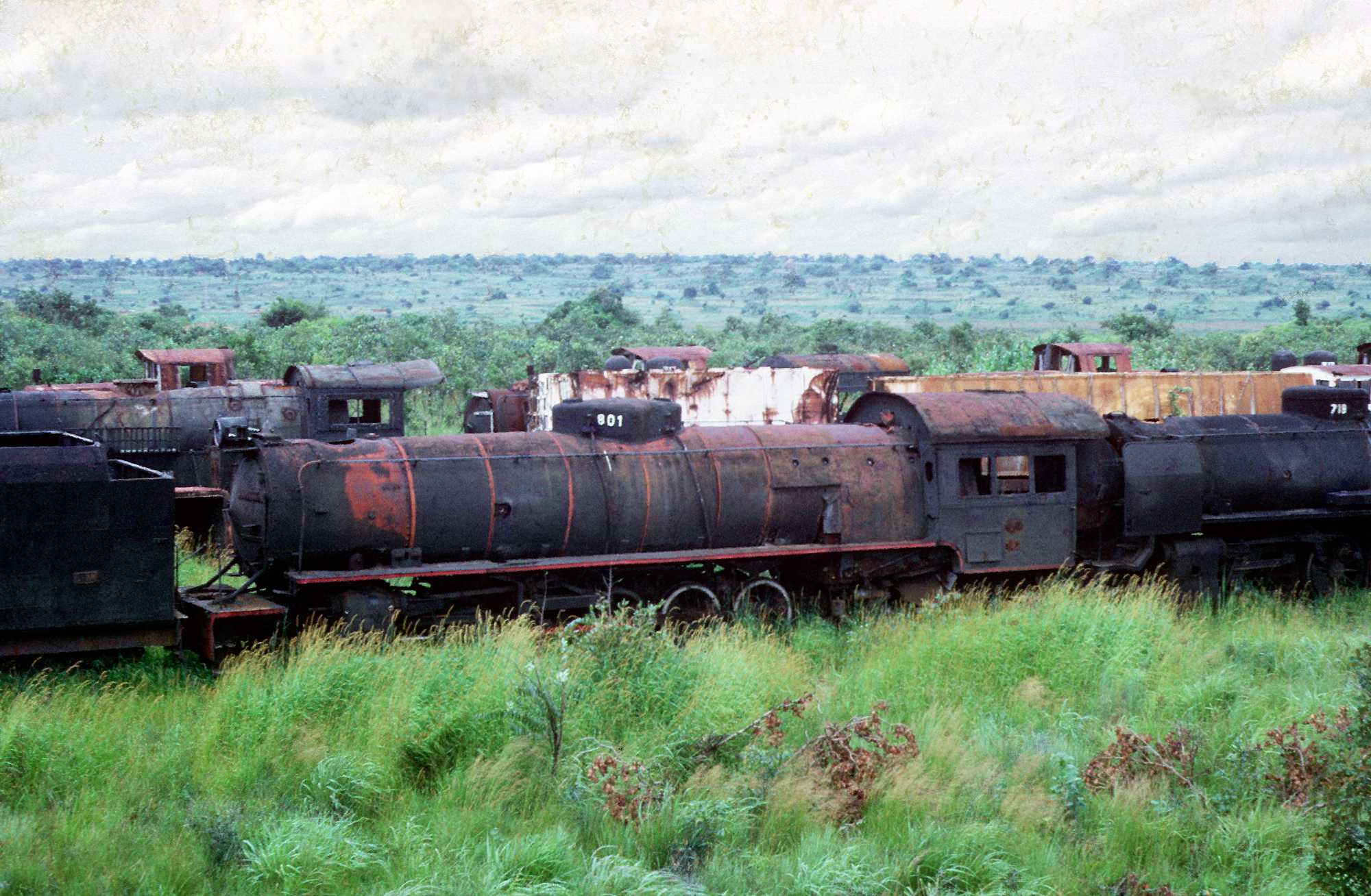 CF du Bas-Congo au Katanga 2-10-4 no. 801Location: Etincelage PW Depot, Lubumbashi